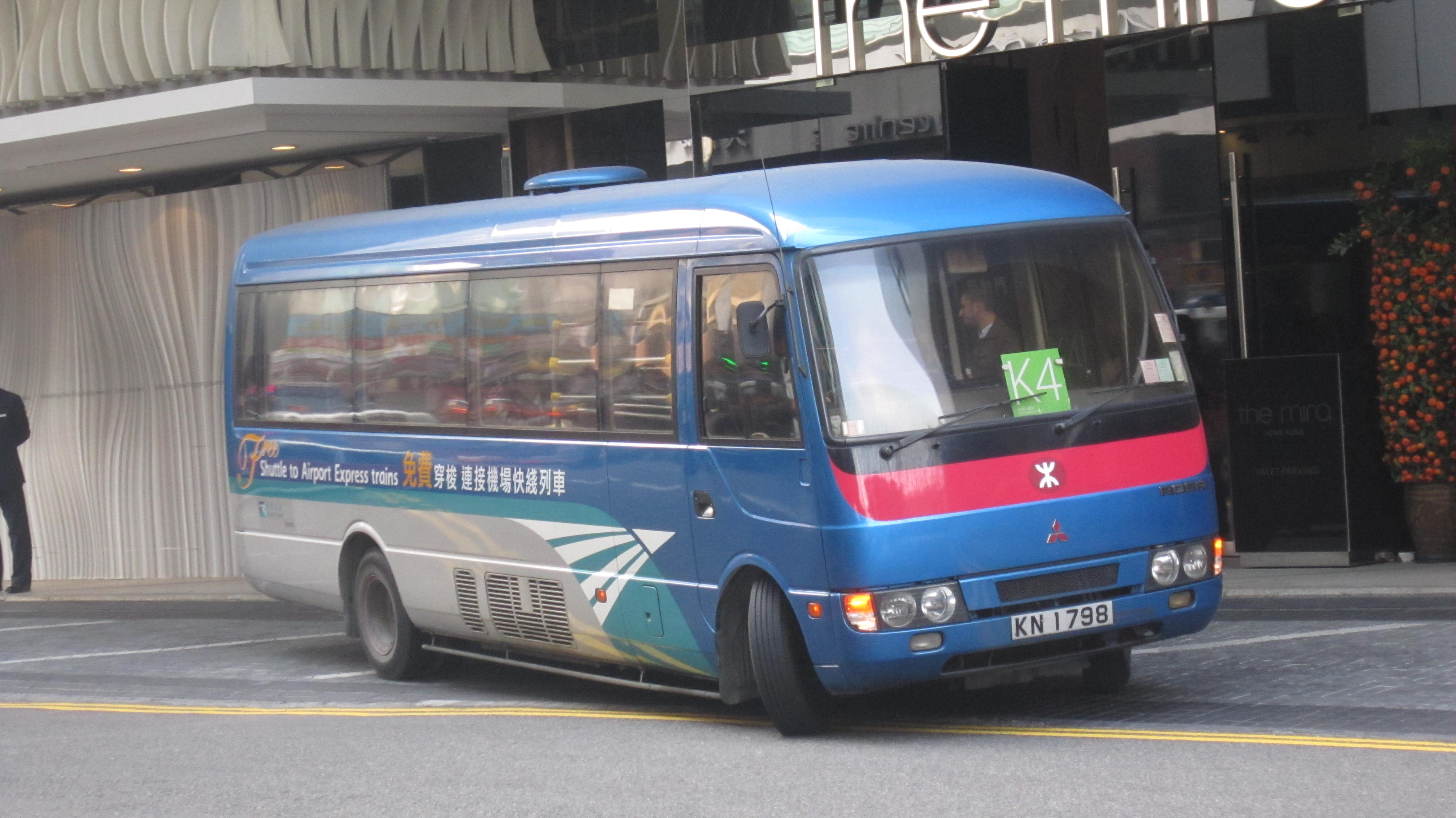 Airport Express Shuttle Bus